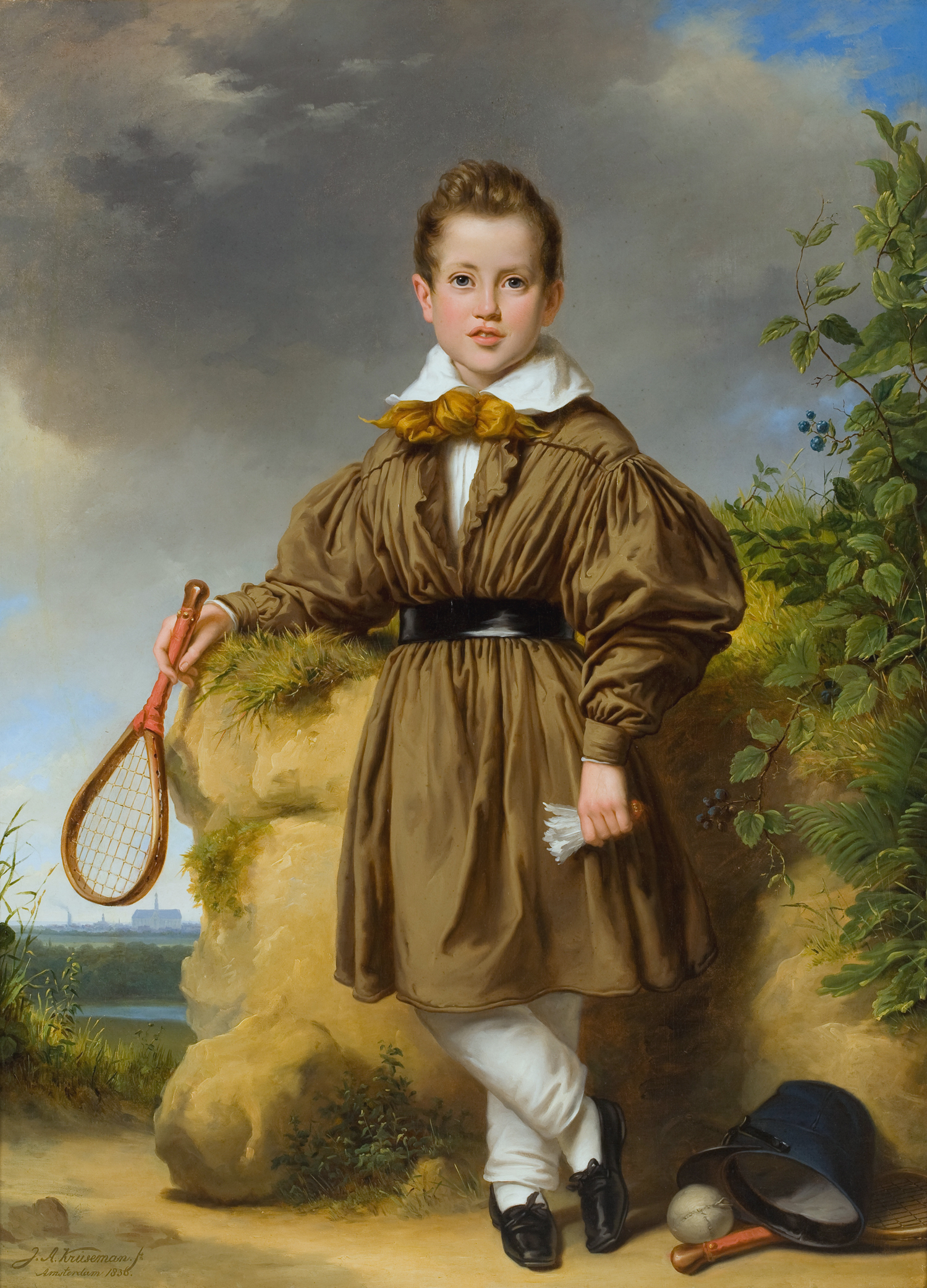 Jan Philip Francois van der Vinne (1825-1843) oil on canvas 151,9 x 119,2 cm signed b.l: J.A. Krüseman. ft. / Amsterdam 1836.